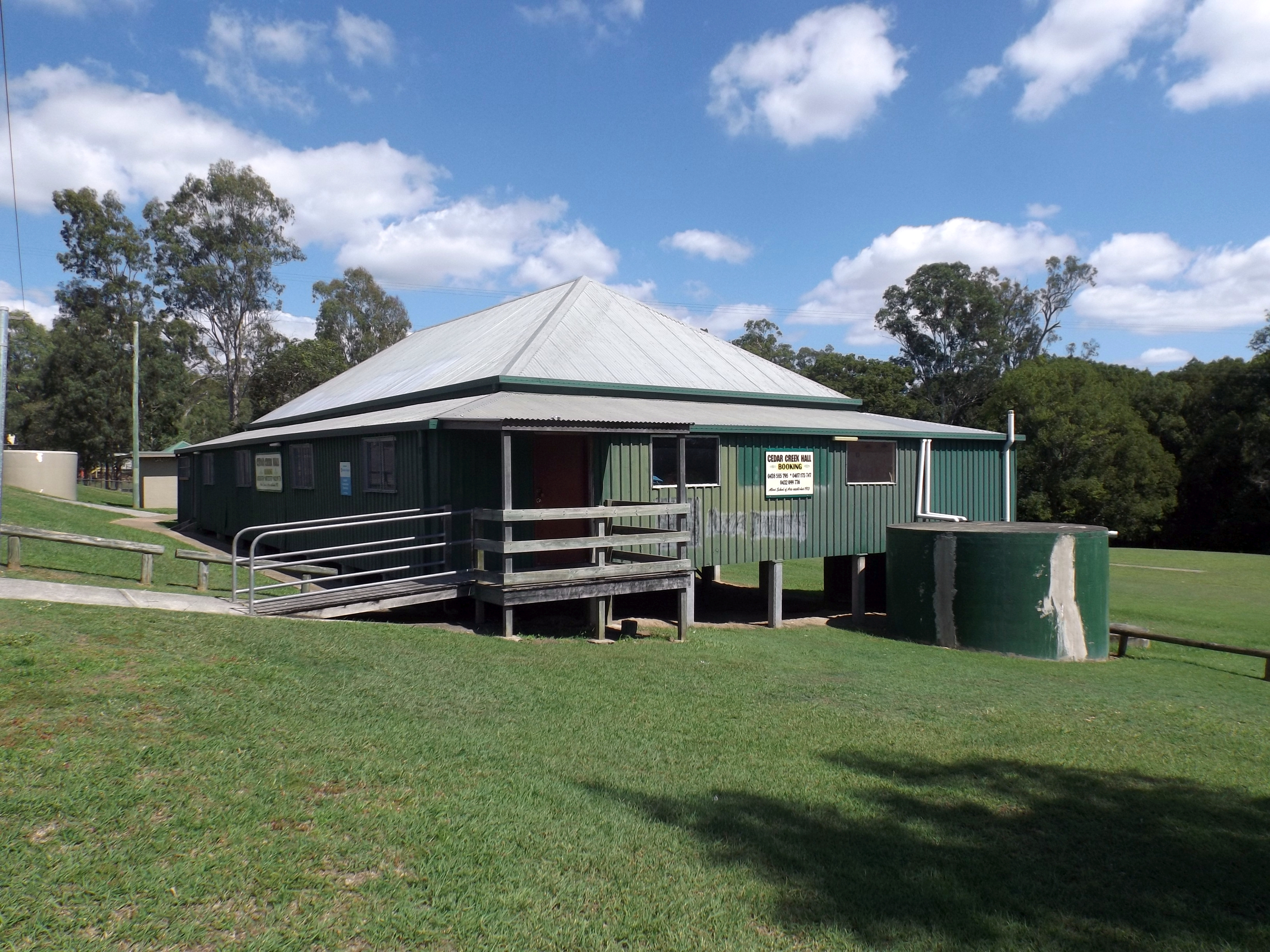 Photo of Cedar Creek Hall at Cedar Creek, Gold Coast City, Queensland, Australia.